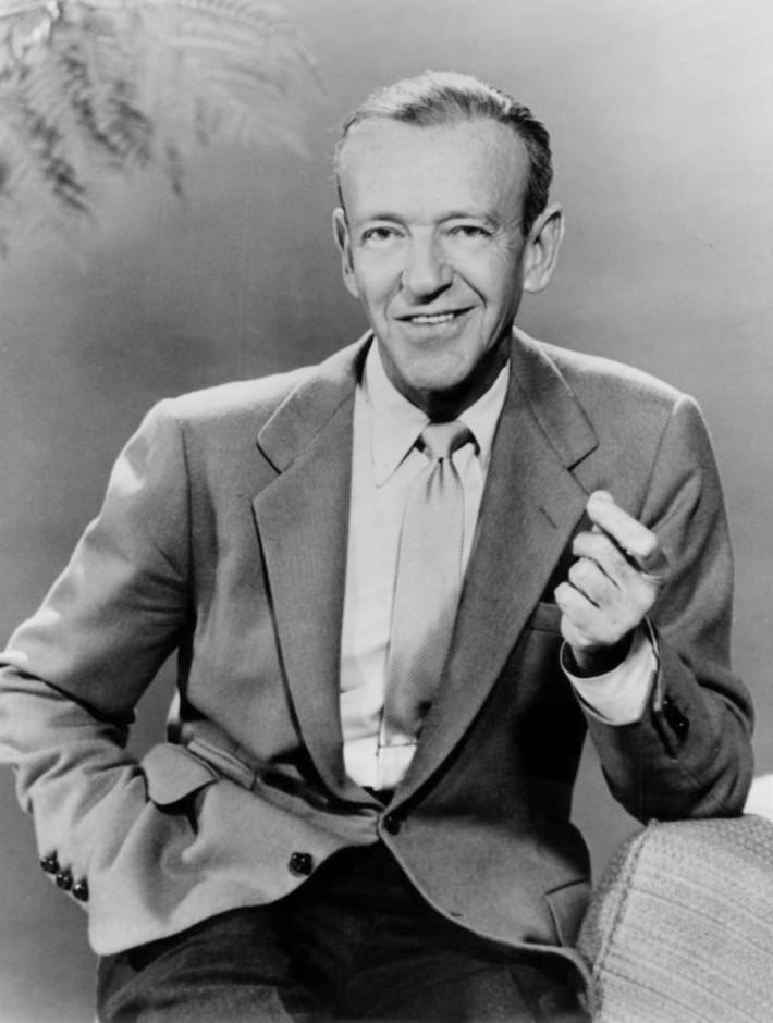 Publicity photo of Fred Astaire from the television program Premiere.